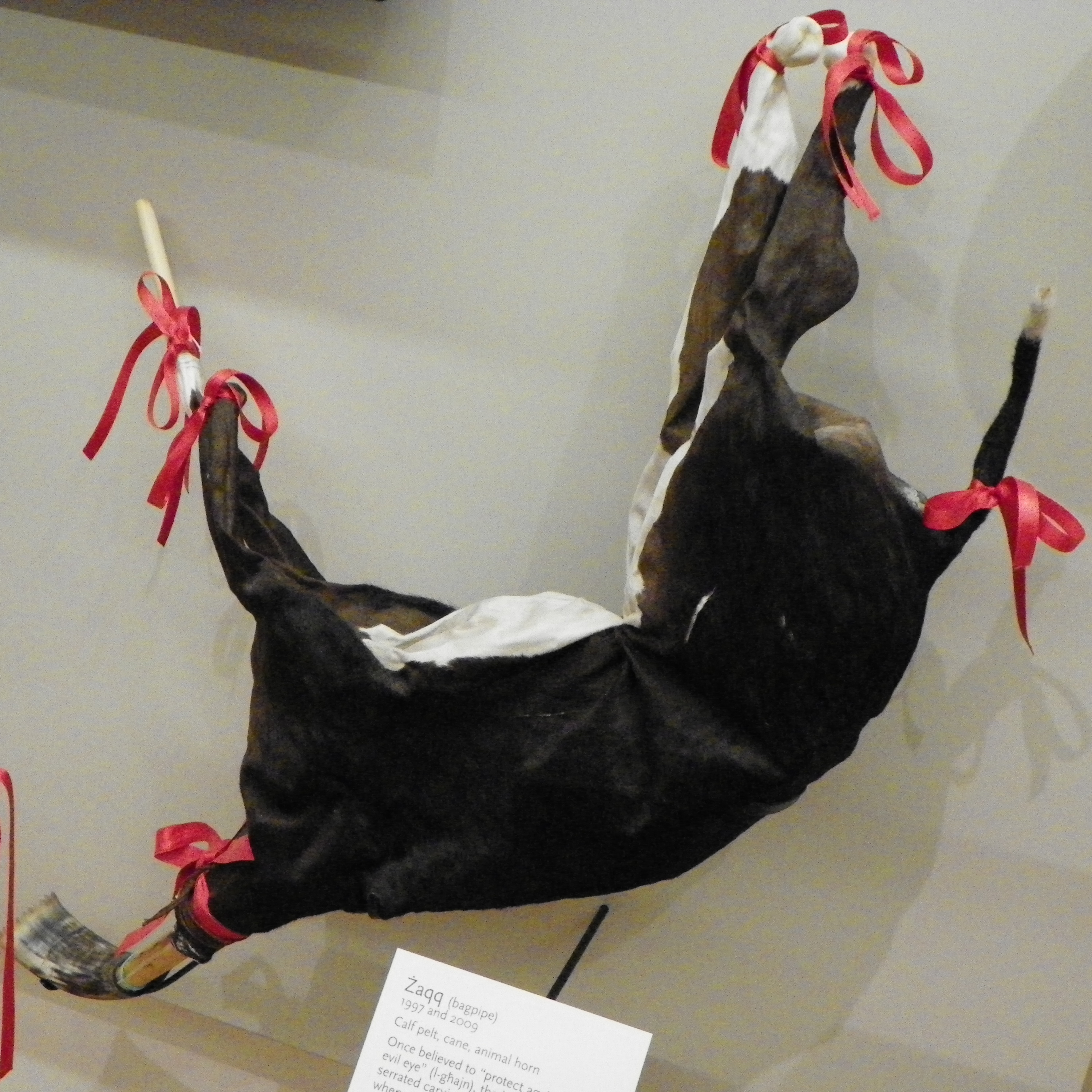 A żaqq (bagpipe), made from calf pelt, cane, and animal horn. Photograph of musical instrument taken at the Musical Instrument Museum (Phoenix) on 2011-04-26.